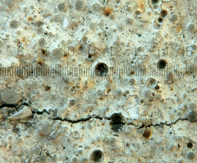 White color used for road marking. It contains small glassy spheres for retroreflection. Scale: 1mm, scale line 0.1mm